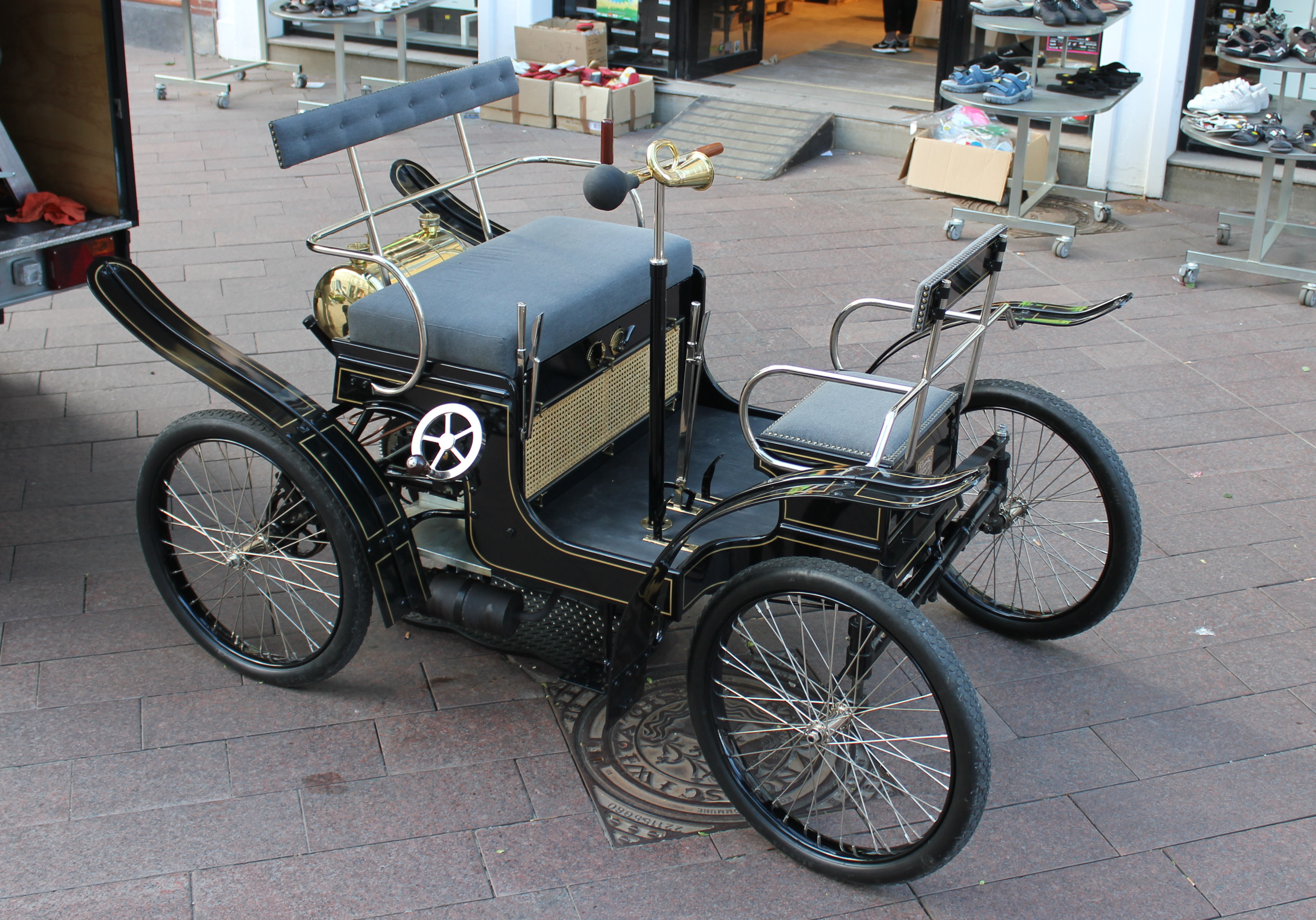 Brems No. 1 Type A the 1900. The car is manufactured by Julius Brems, who started the first carfactory in Viborg, Denmark. The car was first tested on 5th juni 1900th The car had two forward gears and a 2-cylinder engine. Top speed was approximately. 26 km / h and run around 225 km on a tank, and around. 21 km per liter of gasoline. Julius Brems produced 8 cars until the year the 1908. The picture shows a newly buildt copy and is here shown in the streets of Kolding.